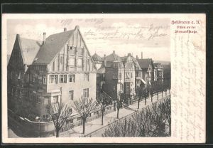 Villen_Bismarckstraße Heilbronn.jpg